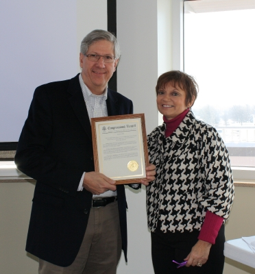 City of Normal, Illinois, Mayor Chris Koos (left) and U.S. Rep. Debbie Halvorson (D-Illinois) (right)